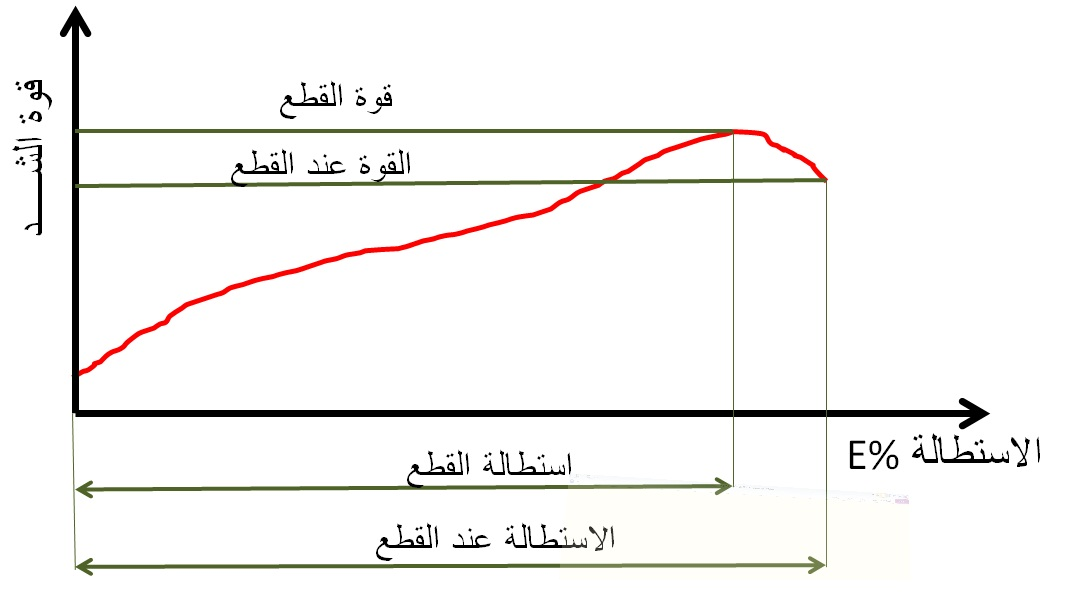 mechanical properties diagram for yarn